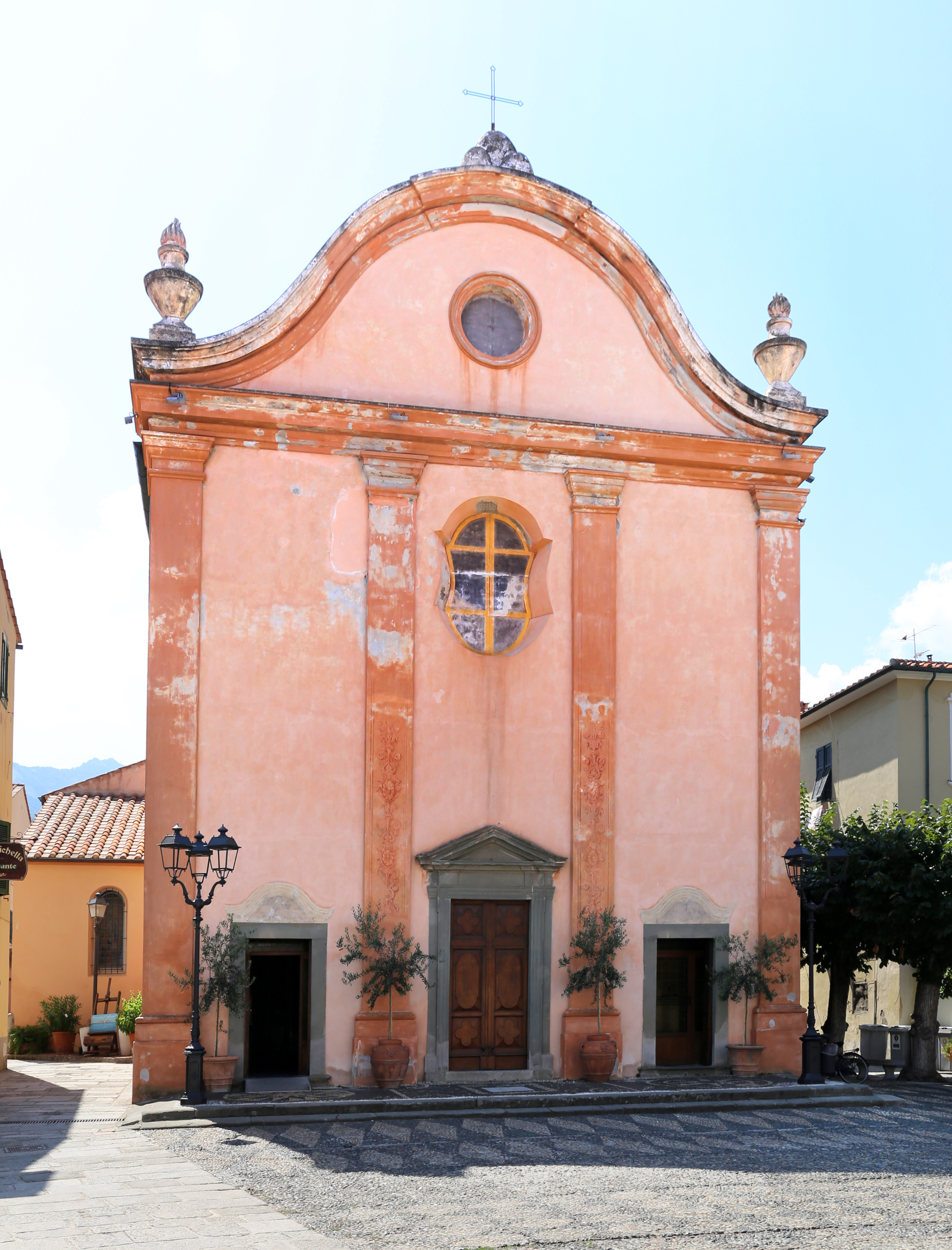 Marciana Marina